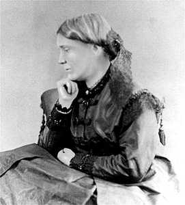 Emily Blackwell